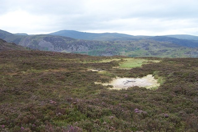 Dried out pools on Pen y Graig Gron. Dried out pools of water on Pen y Graig Gron at SH 74358 62636 looking in a Westerly direction to Carnedd Llewelyn beyond.